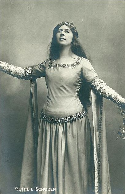 Marie Gutheil-Schoder (1874-1935) German Soprano